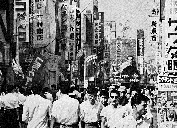 Kabukicho circa 1960